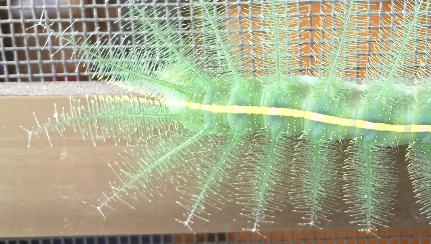 Showing detail of feathery extensions on the body